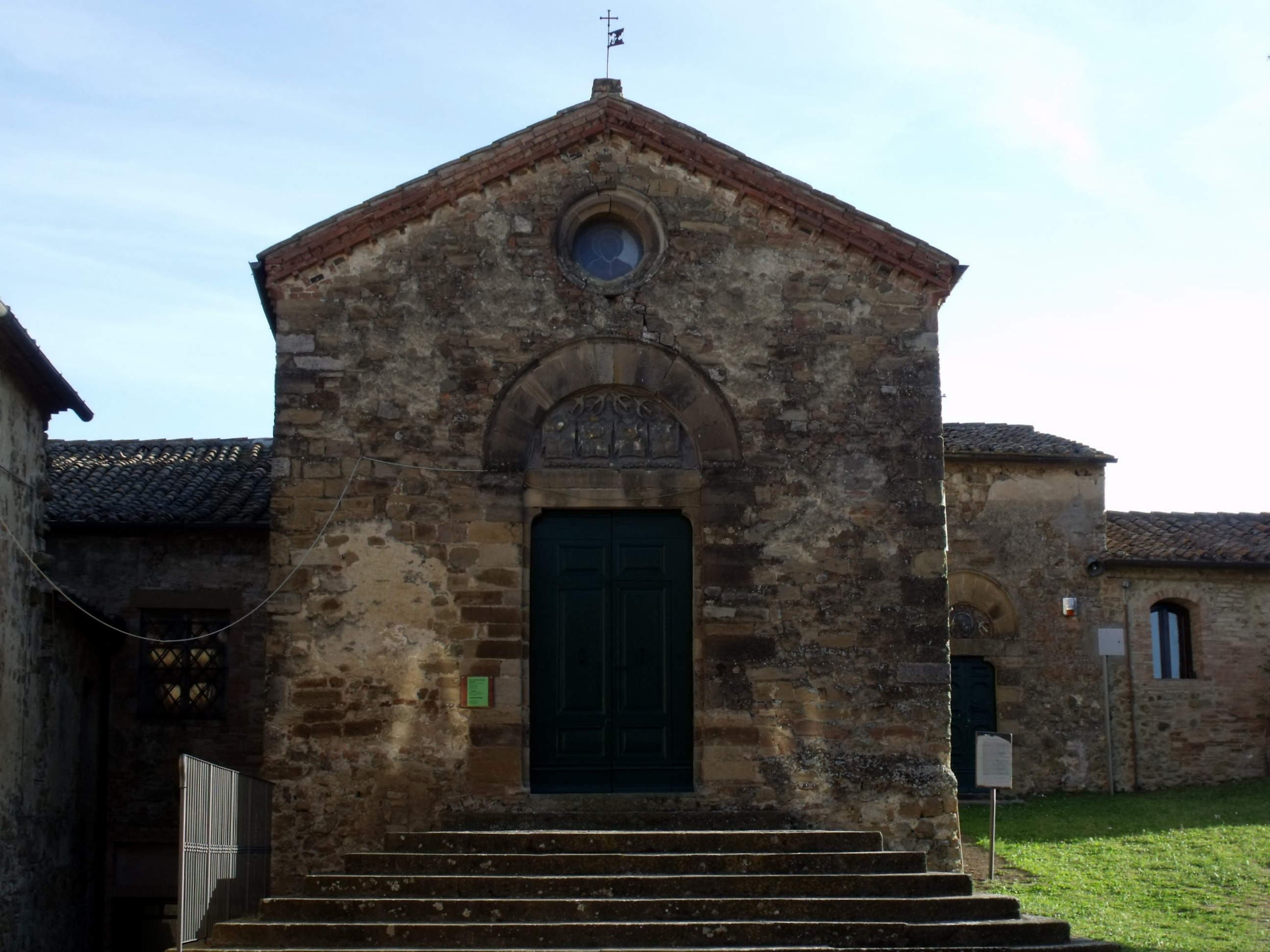 Church of San Donato, Porrona, hamlet of Cinigiano, Province of Grosseto, Tuscany, Italy